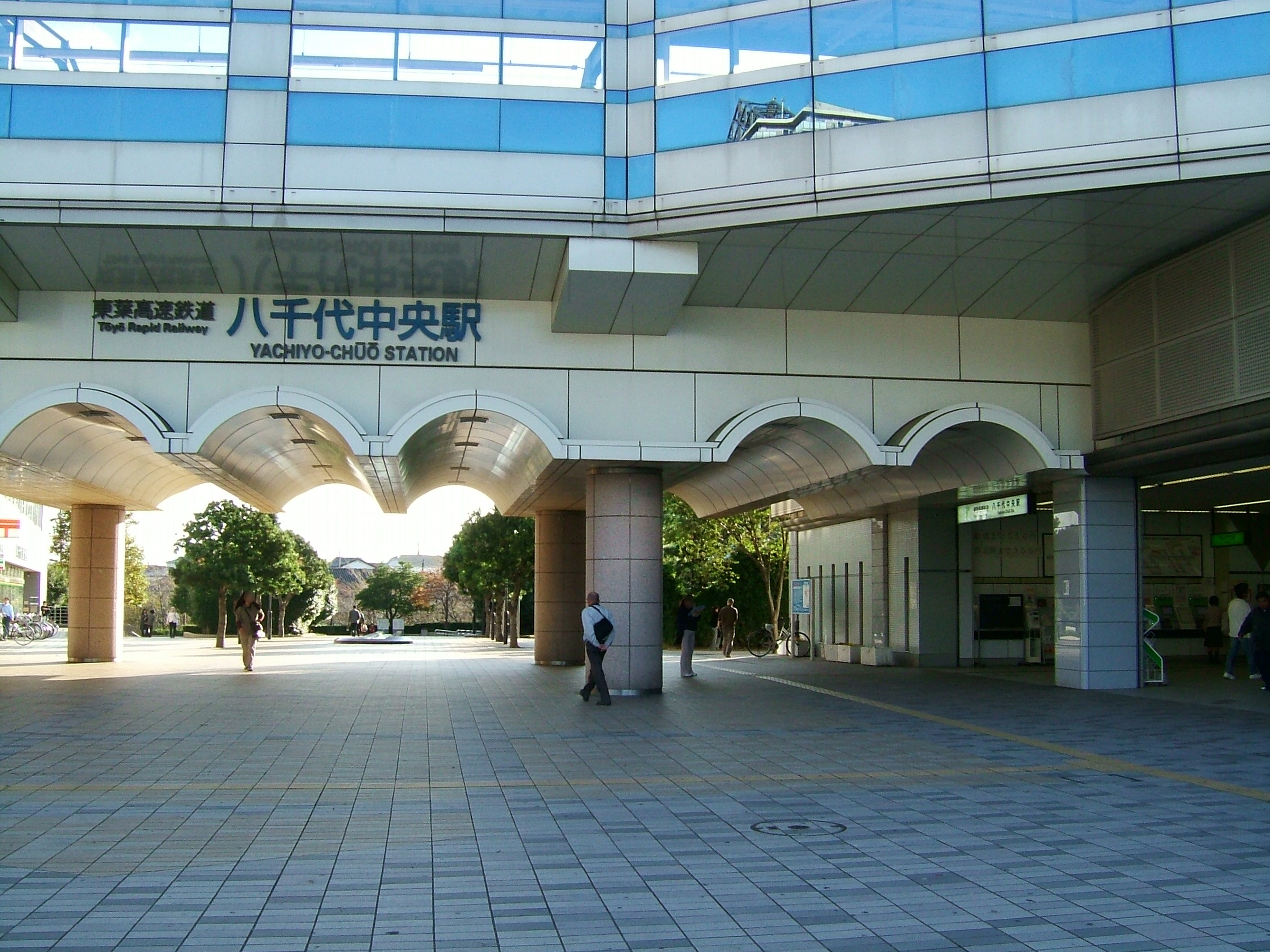 Yachiyo-Chuo Station (Toyo Rapid Railway Line)